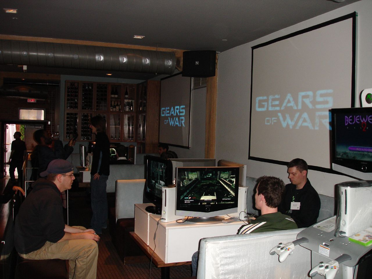 X06 Canada: "Gears of War" Theme Area.